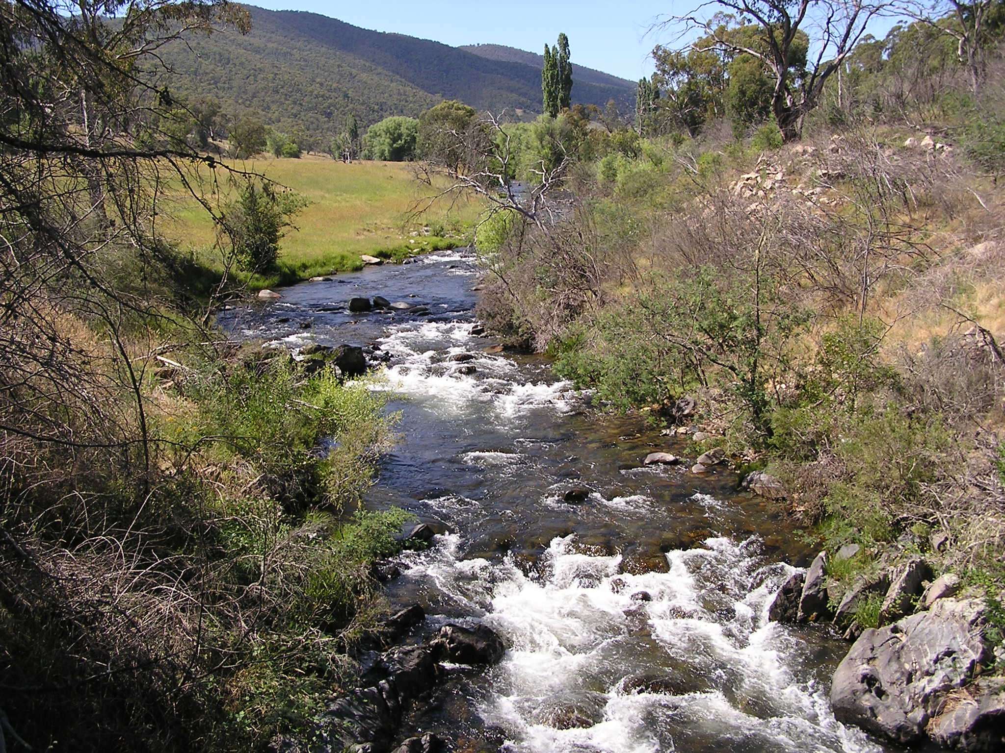 Goodradigbee river in the Brindabella valley, New South Wales, Australia Picture taken by AYArktos